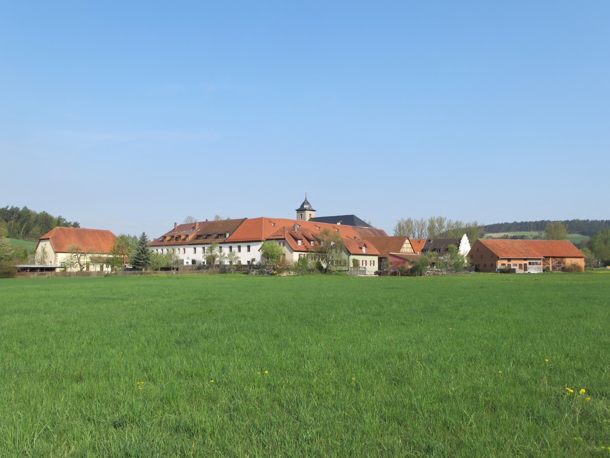 Wechterswinkel, View to Abbey from south